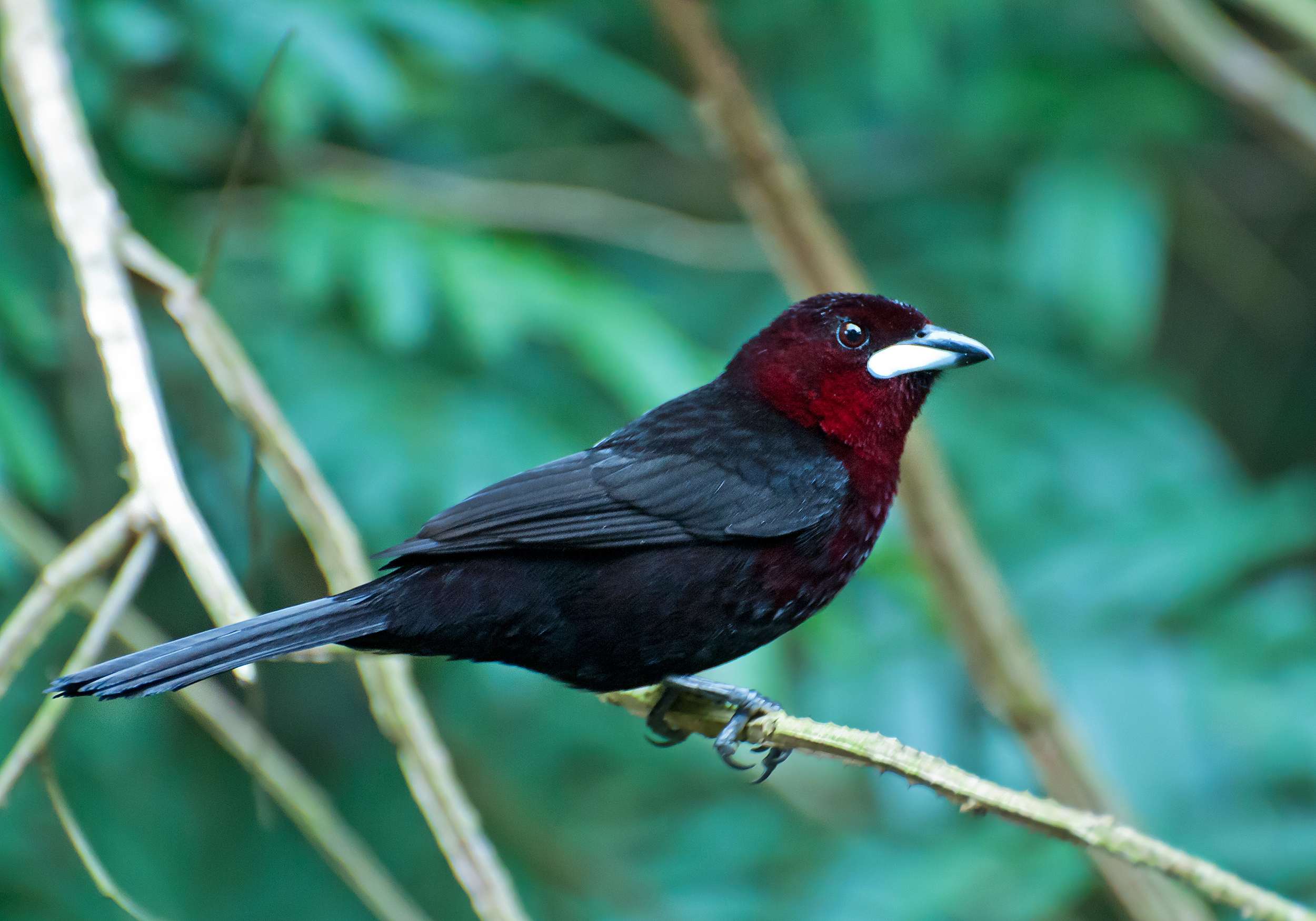 A male Silver-beaked Tanager in Piraju, São Paulo, Brazil.